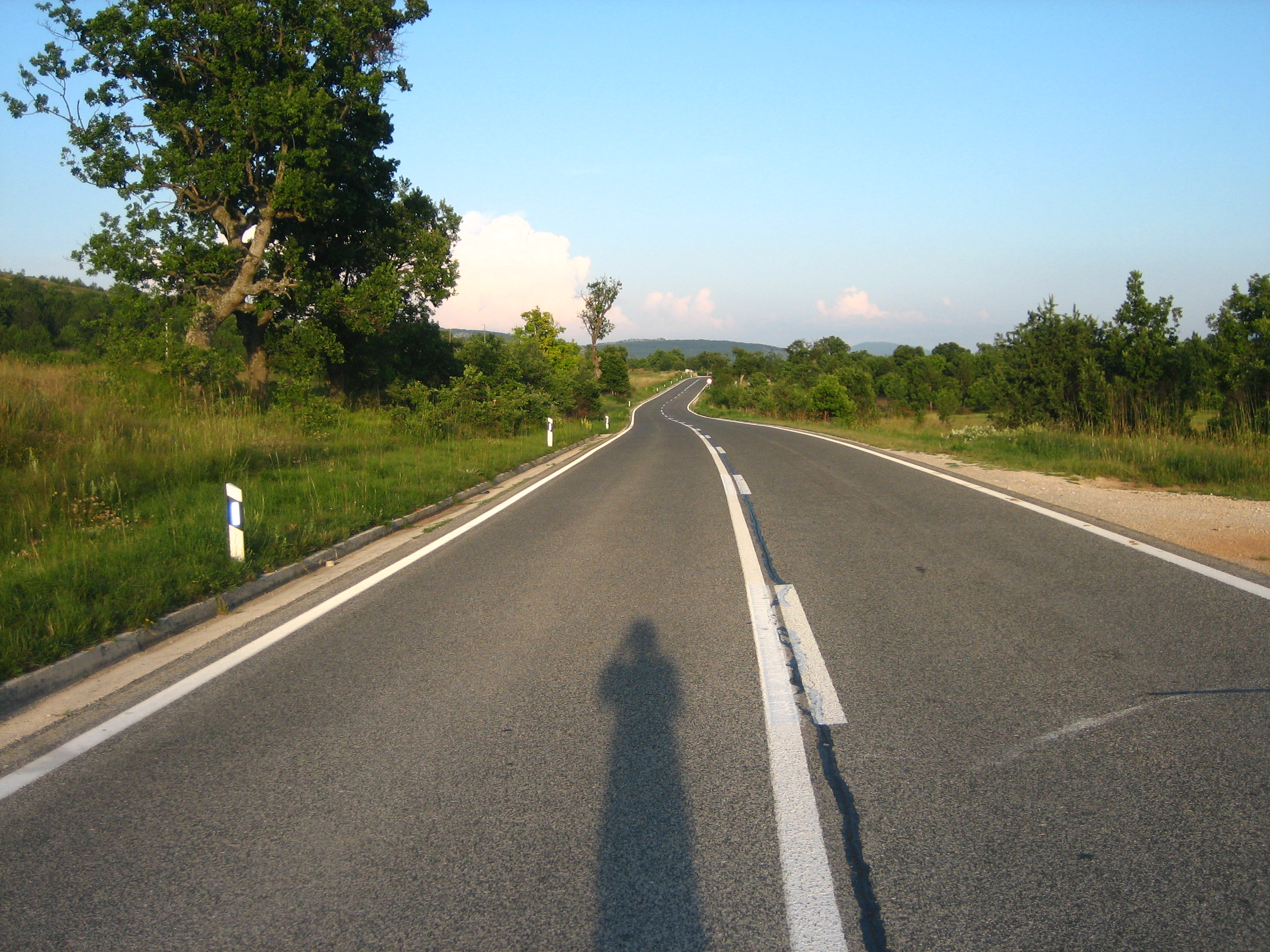 Državna cesta D60